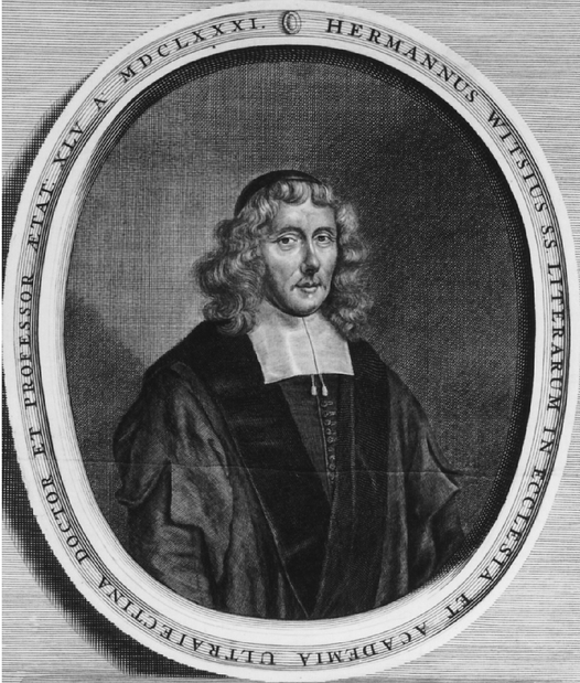 Herman Witsius (1636-1708), Dutch theologian